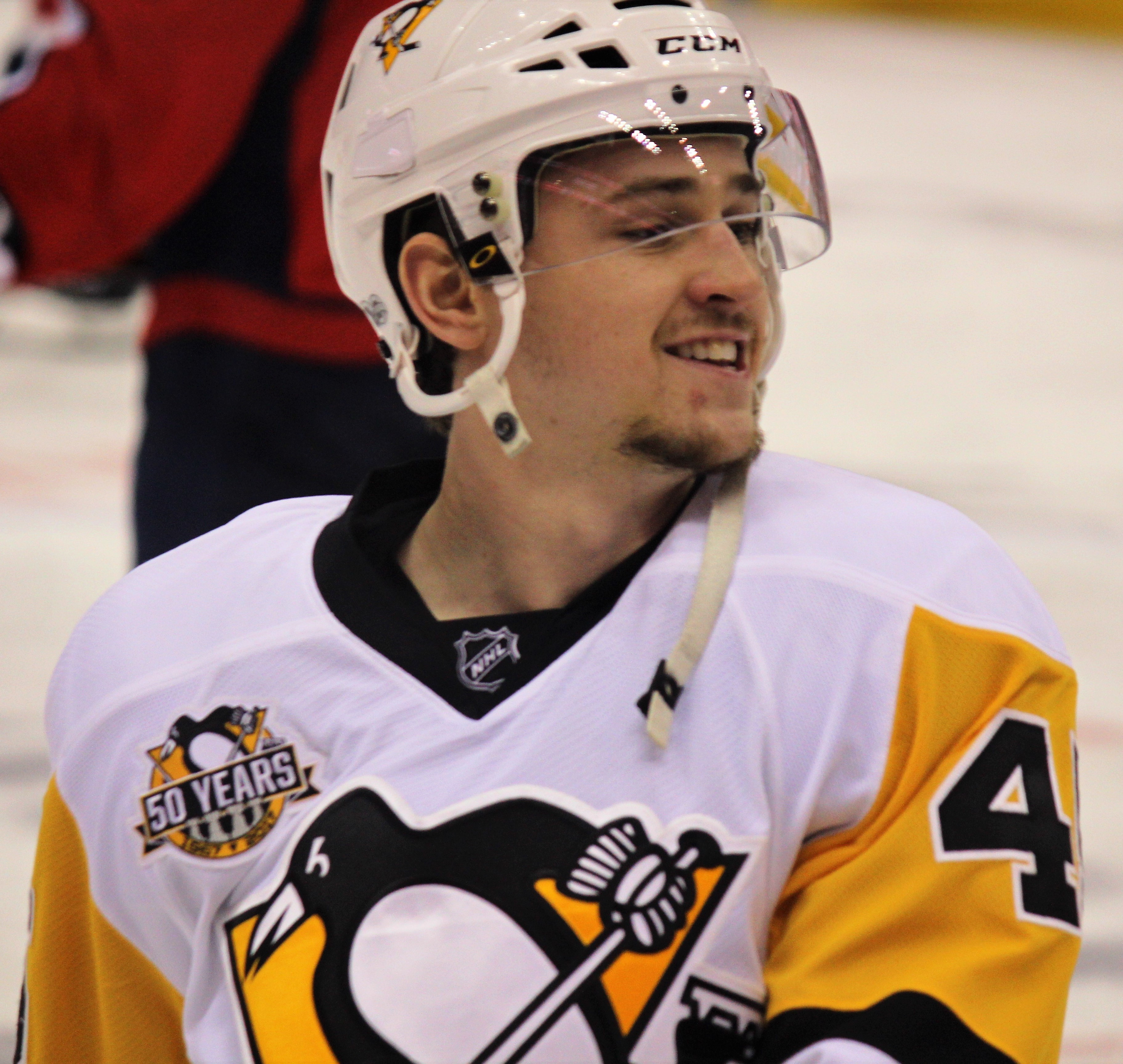 Pittsburgh Penguins forward Josh Archibald participating in the pregame skate at Verizon Center in Washington, D.C.